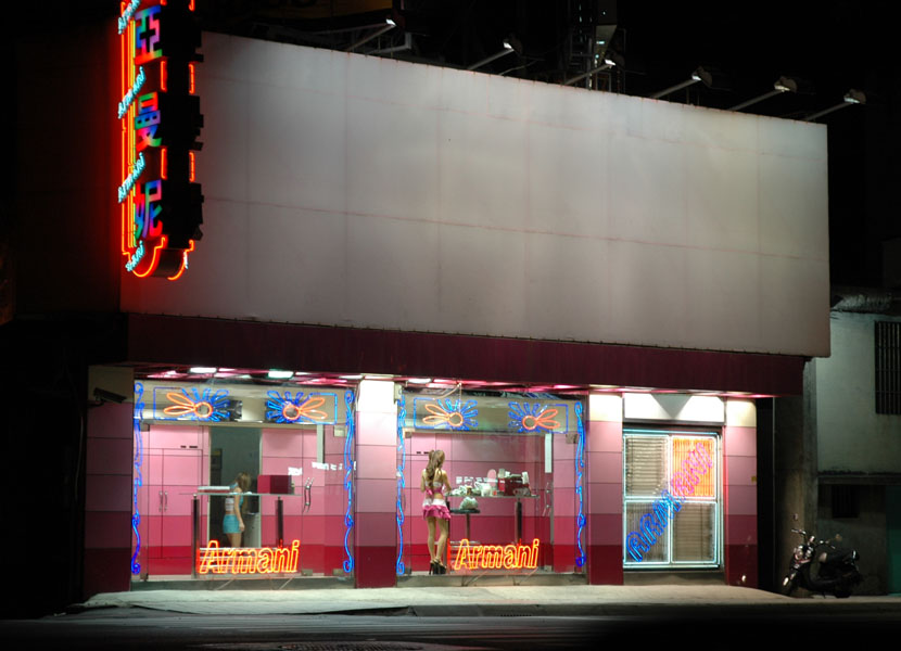 A highly decorated Betel Nut Beauty Stand by the Provincial Way No.4. Although simply a commercial activity selling betel nuts, the betel nut beauties and the stands have become part of Taiwanese culture.